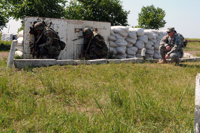 A North Carolina National Guard Soldier observes as Soldiers of the Moldovan army 22nd Peace Keeping Battalion crouch after hearing the alarm for an explosion device found on their mock base during a training exercise here June 24, 2011. The 22nd PKB soldiers participated in exercises to show off their capabilities as a unit before their NATO evaluation, a weeklong exercise called Peace Shield 2011 that kicked off June 27.